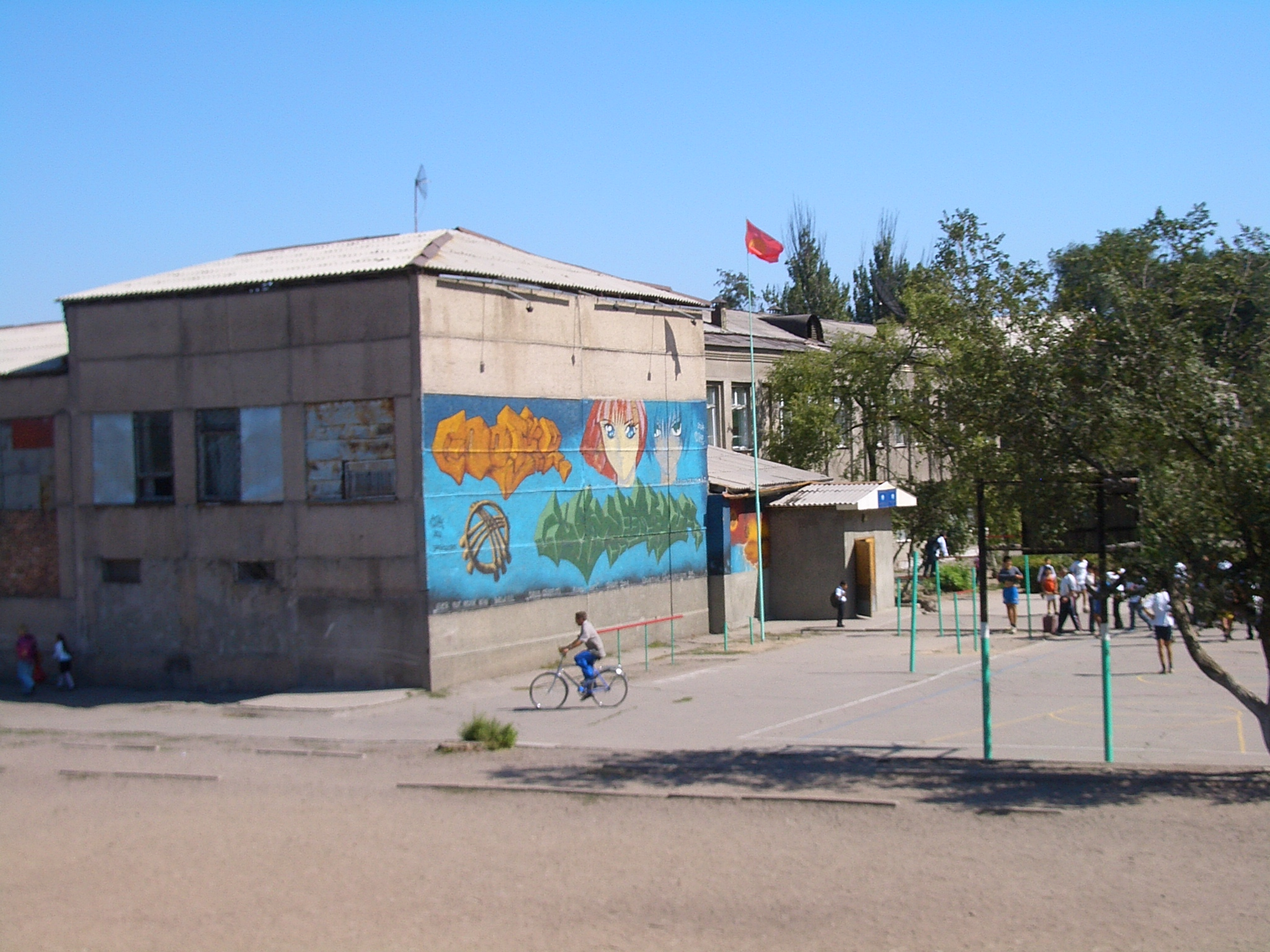 A general view of Guettée Humanitarian Gymnasium (also called School No. 23). Bishkek, Kygyzstan.